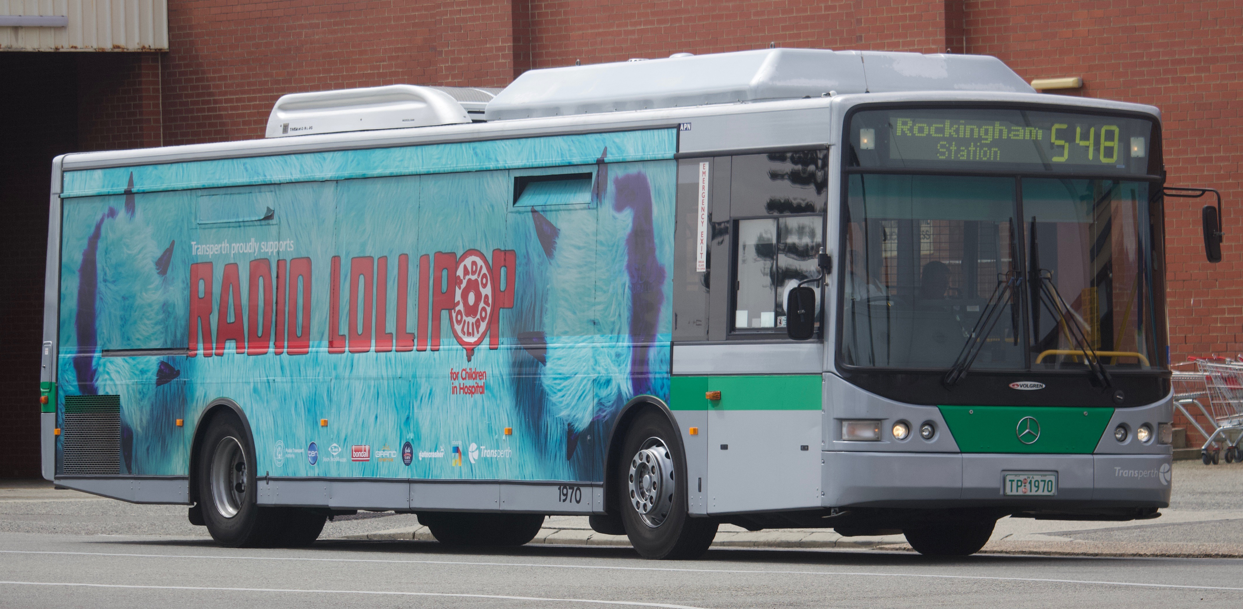 2008 Volgren CR228L on Mercedes-Benz OC 500 LE CNG operating under Transdev doing a 548 to Rockingham Station.